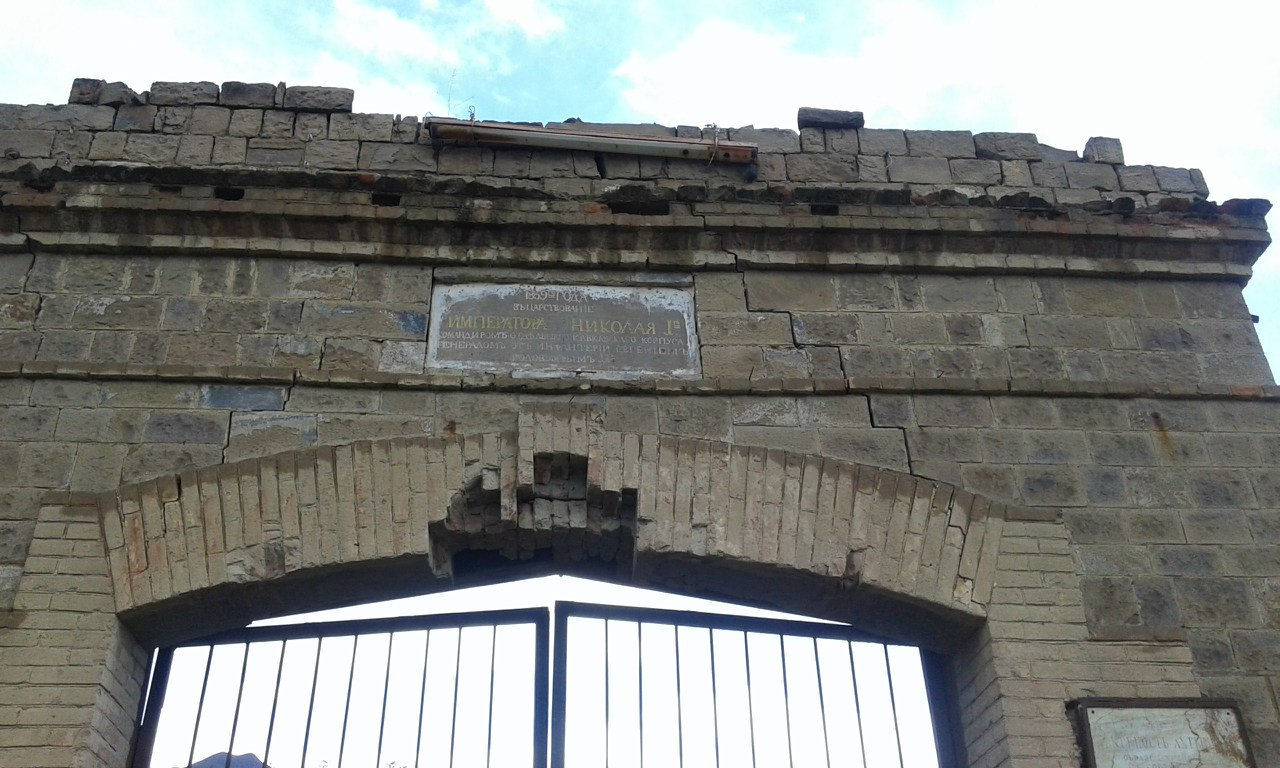 The gates of Fortress Ahtynsky